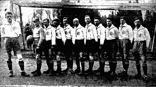 Polish associate football team Rewera Stanisławów (currently Iwano-Frankowsk in Ukraine) in 1922